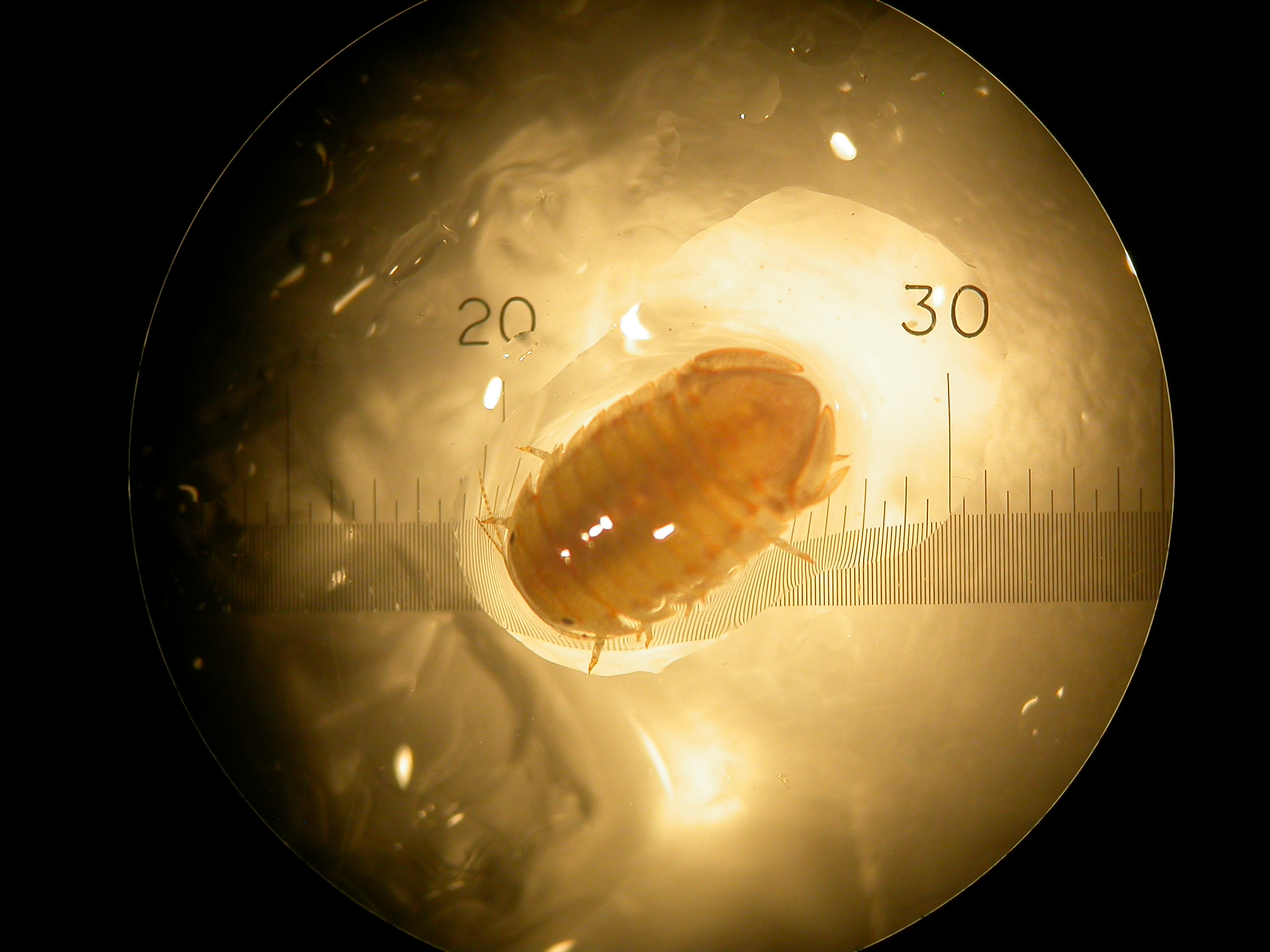 Socorro isopod (Thermosphaeroma thermophilum) - large male from the propagation facility